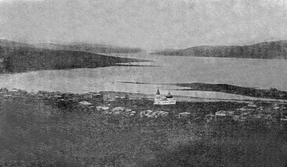 Panorama of Kola with the Annunciation Church, 1914.